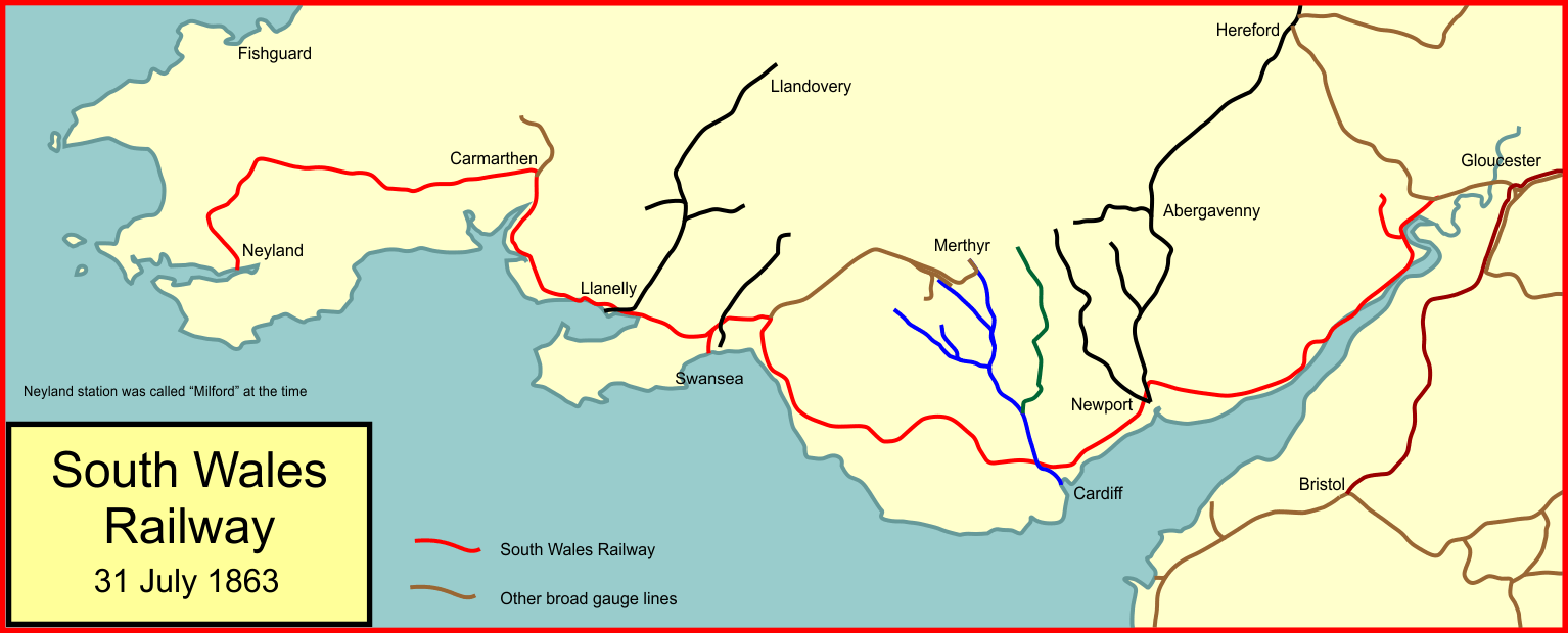 System map of the South Wales Railway in 1863 at the end of its independent existence